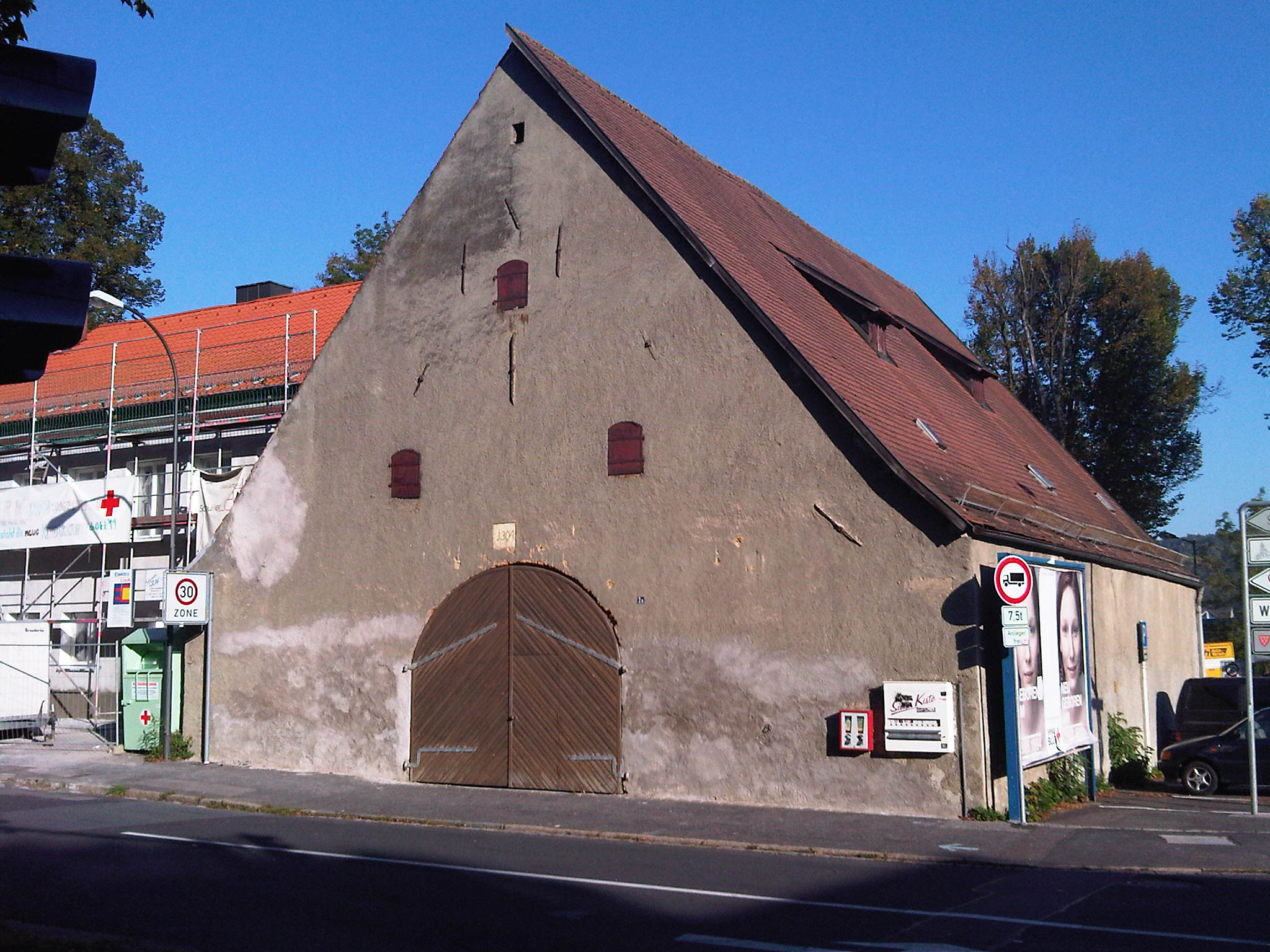 Historic tithe barn in Sulzbach-Rosenberg, named Scherling-Stadel after a prior owner